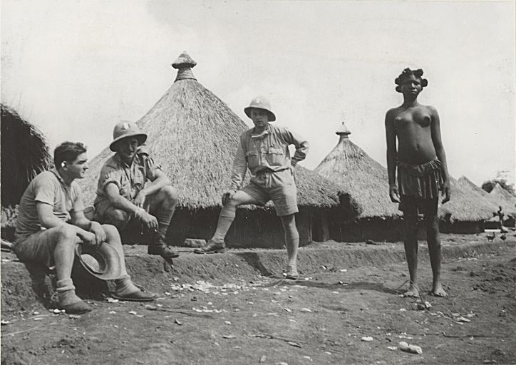 Soldiers of the Forces Françaises Libres near Bangui in the Oubangui-Chari region (nowadays the Central African Republic) in 1940.